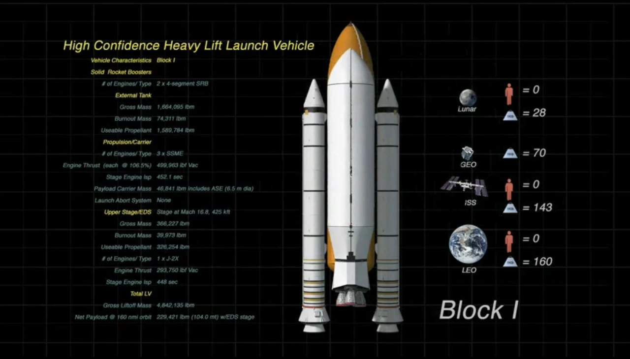 High Confidence Heavy Lift Launch Vehicle AKA Shuttle-Derived Heavy Lift Launch Vehicle